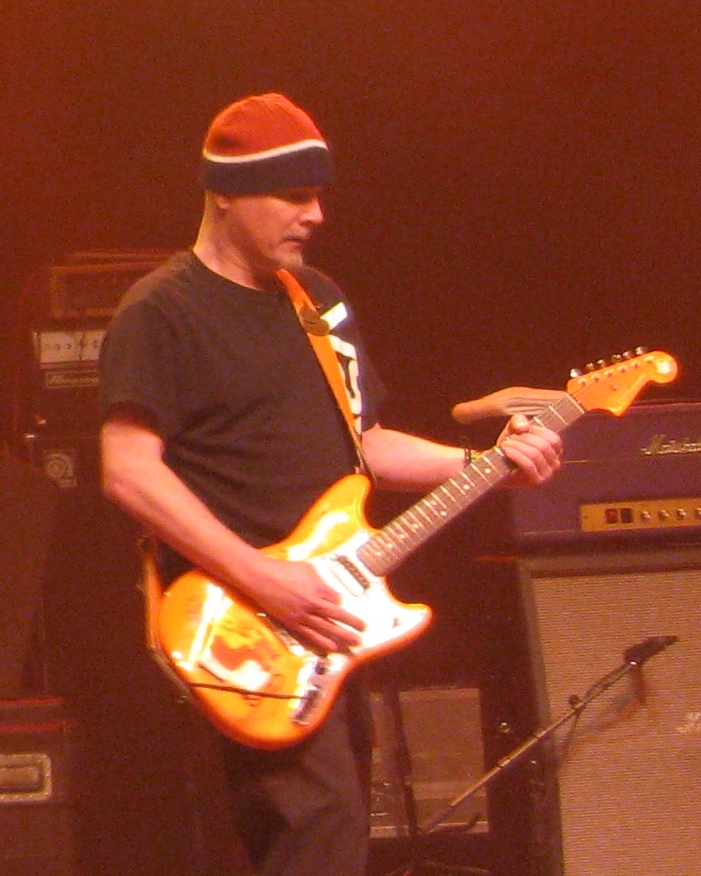 Guitarist Warren Fitzgerald of The Vandals performing December 18, 2011 at the Santa Monica Civic Auditorium in Santa Monica, California as part of the GV30 event.